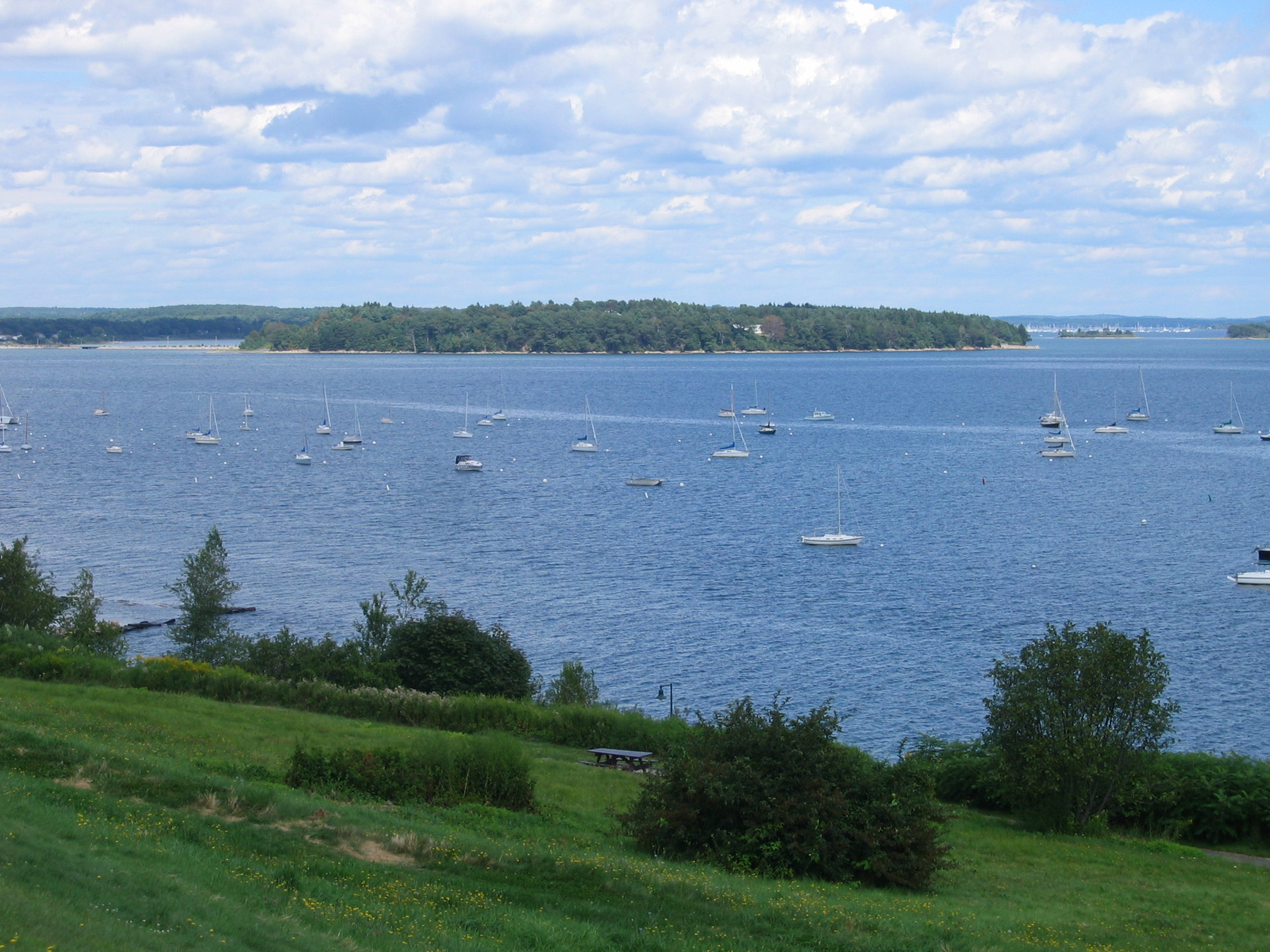 Eastern Promenade Park overlooking Casco Bay in Portland, Maine.